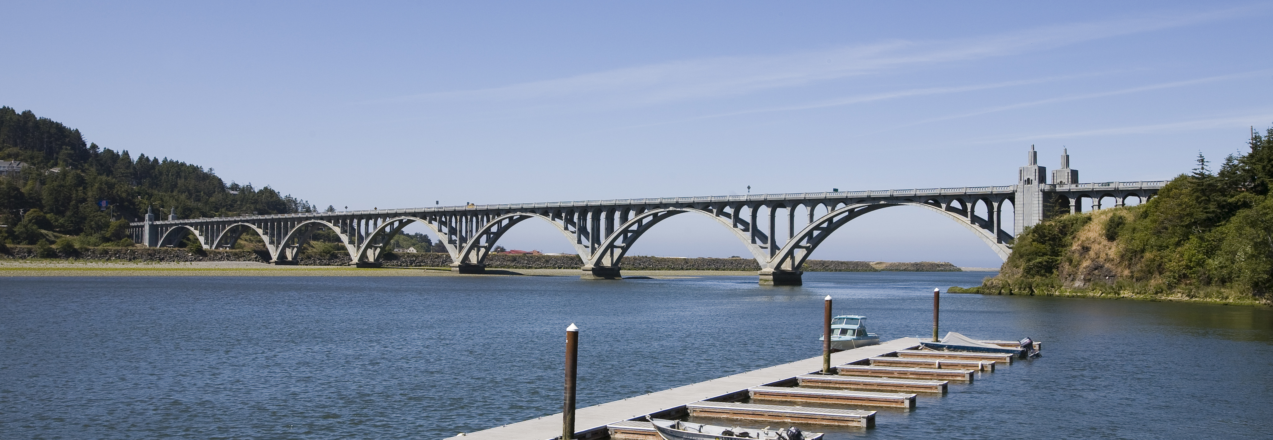 The Isaac Lee Patterson Bridge in Gold Beach, Oregon seen from the northeast.